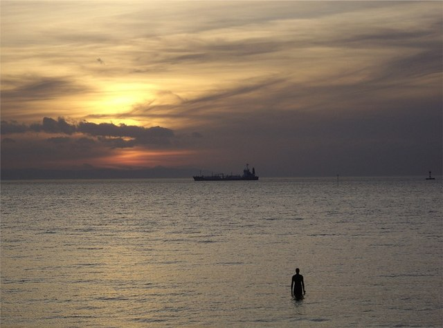 Crosby Channel Homeward bound, passing one of the iron-sculptured men from Antony Gormley's "Another Place".